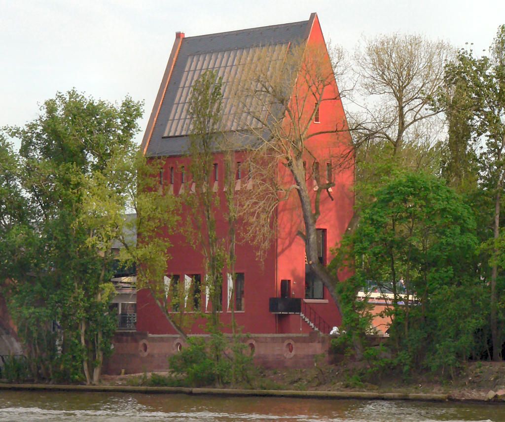 Exhibiton hall Neuer Portikus in Frankfurt, Germany